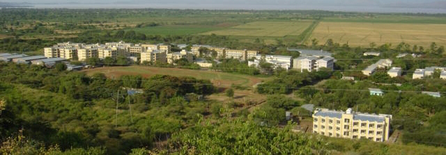 Skyline of Arba Minch University. Higher resolution+crop. This work's original author is Admasu B.